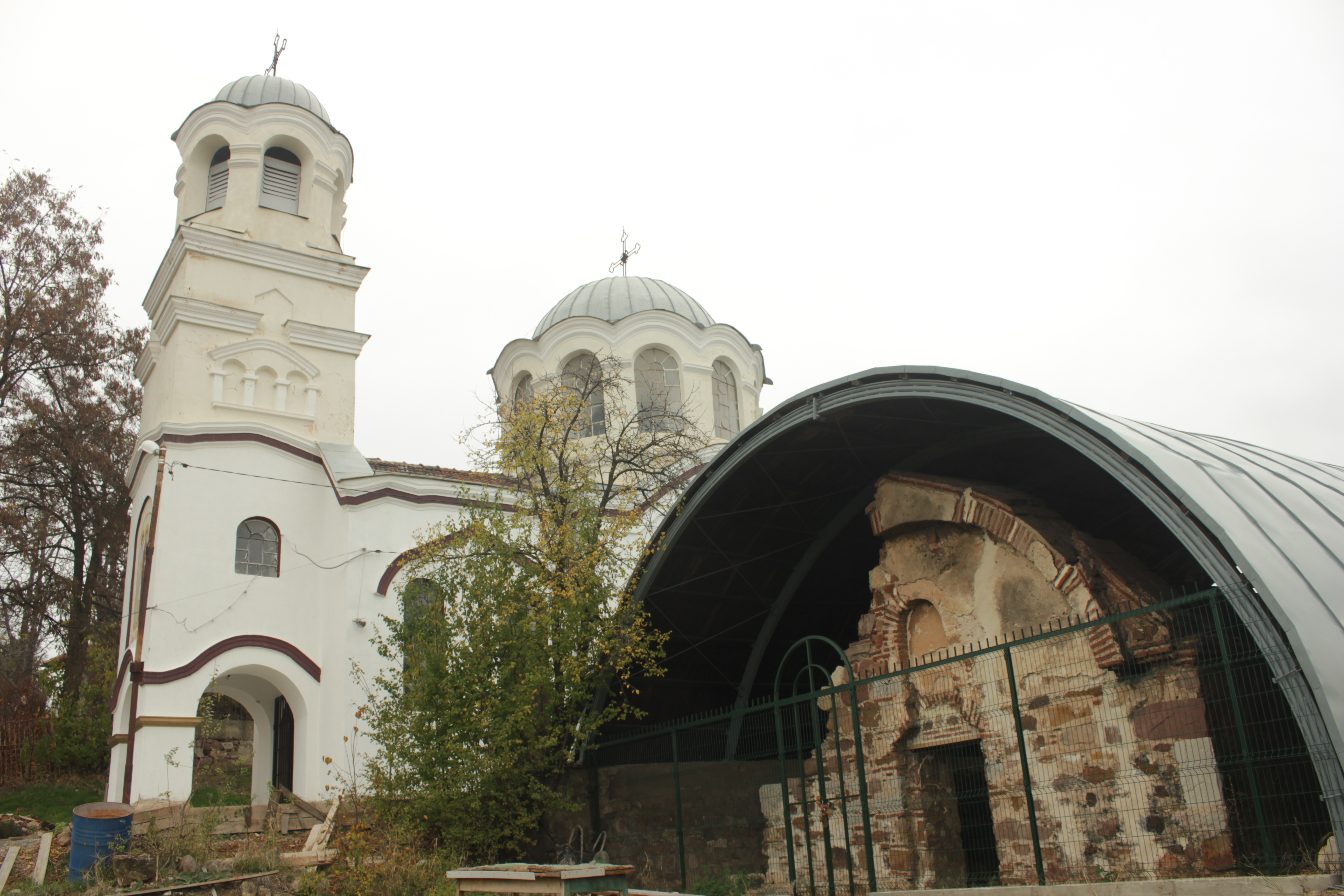 Medieval ruins and new Saint Petka Church in Balcha